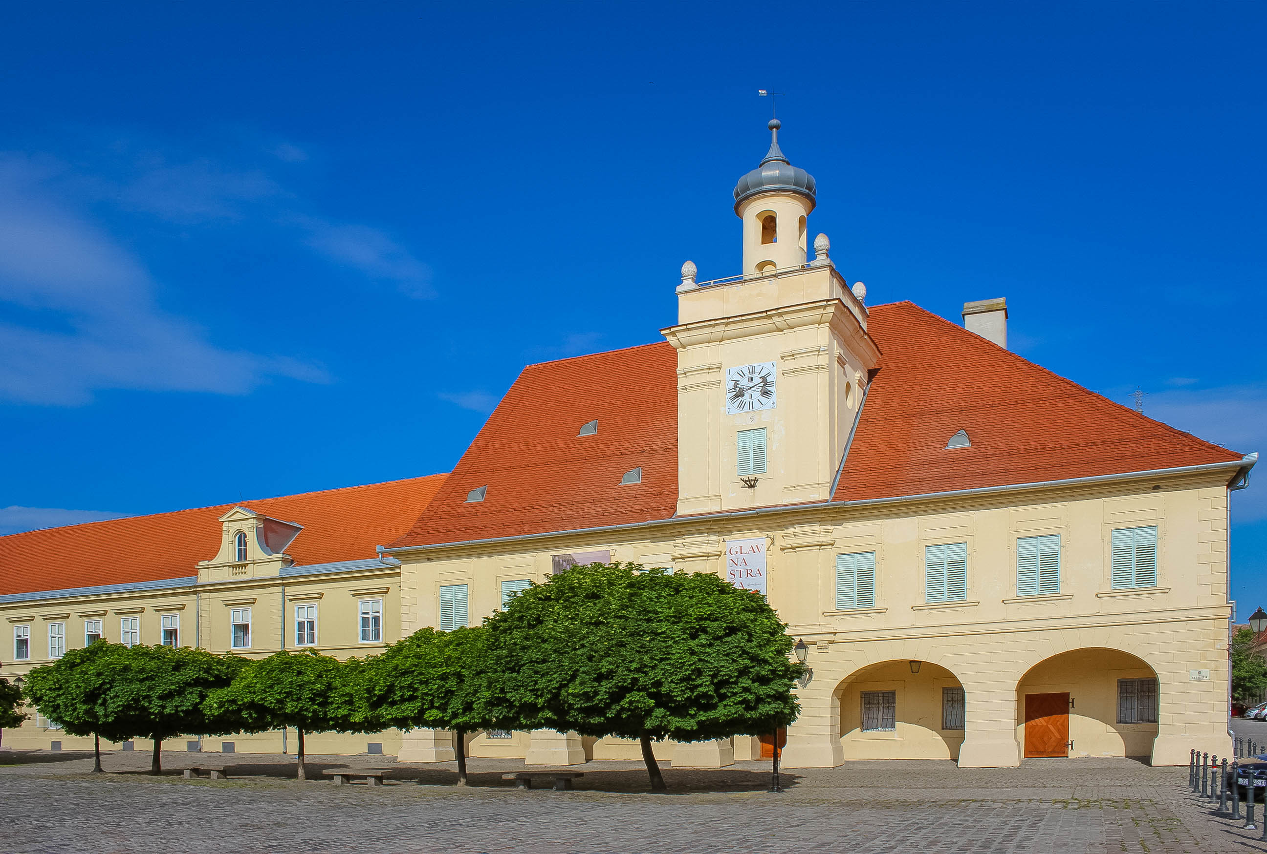 Museum